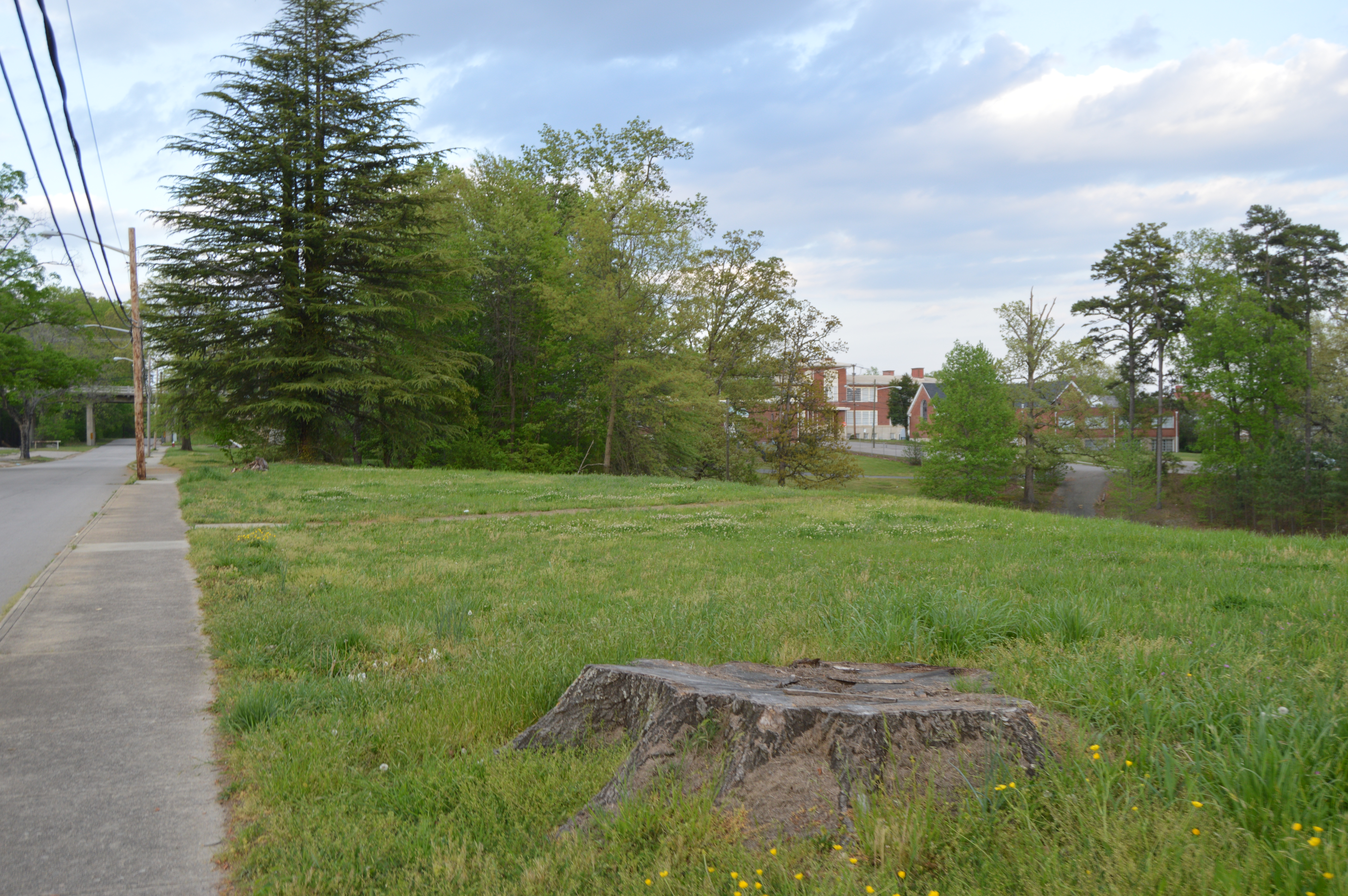 A lawn on the southern side of Lanier Avenue, east of Hylton Avenue, in Danville, Virginia, United States. This was formerly the site of Hylton Hall, which was listed on the National Register of Historic Places in 2009.